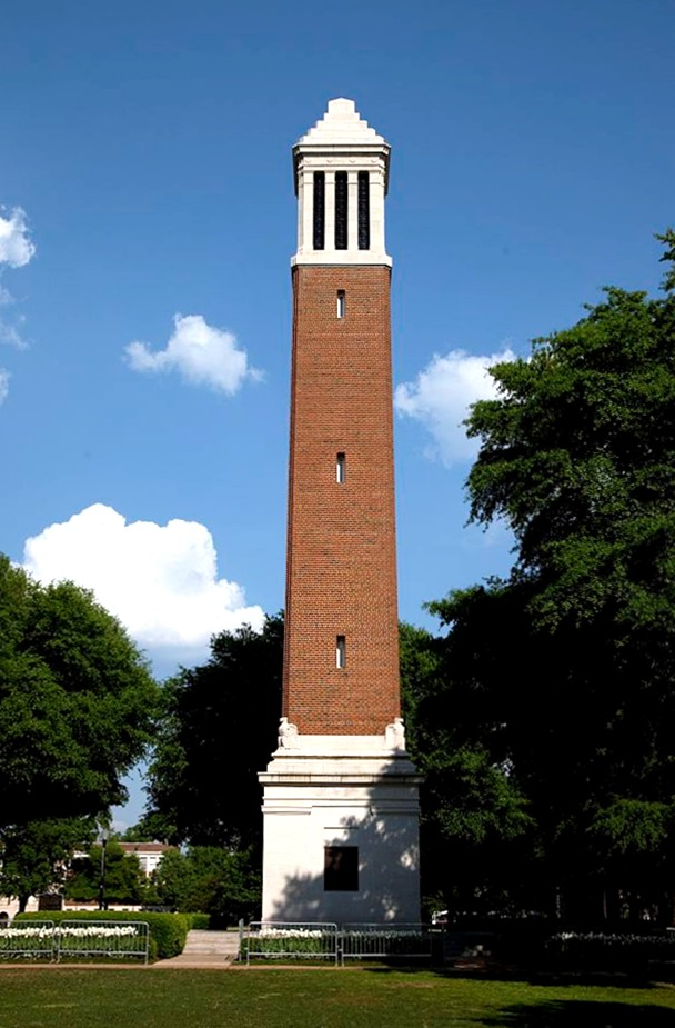 Denny Chimes is a 115 foot (35 m) tall campanile equipped with a 25-bell carillon, located on the south side of The Quad of the University of Alabama in Tuscaloosa, Alabama